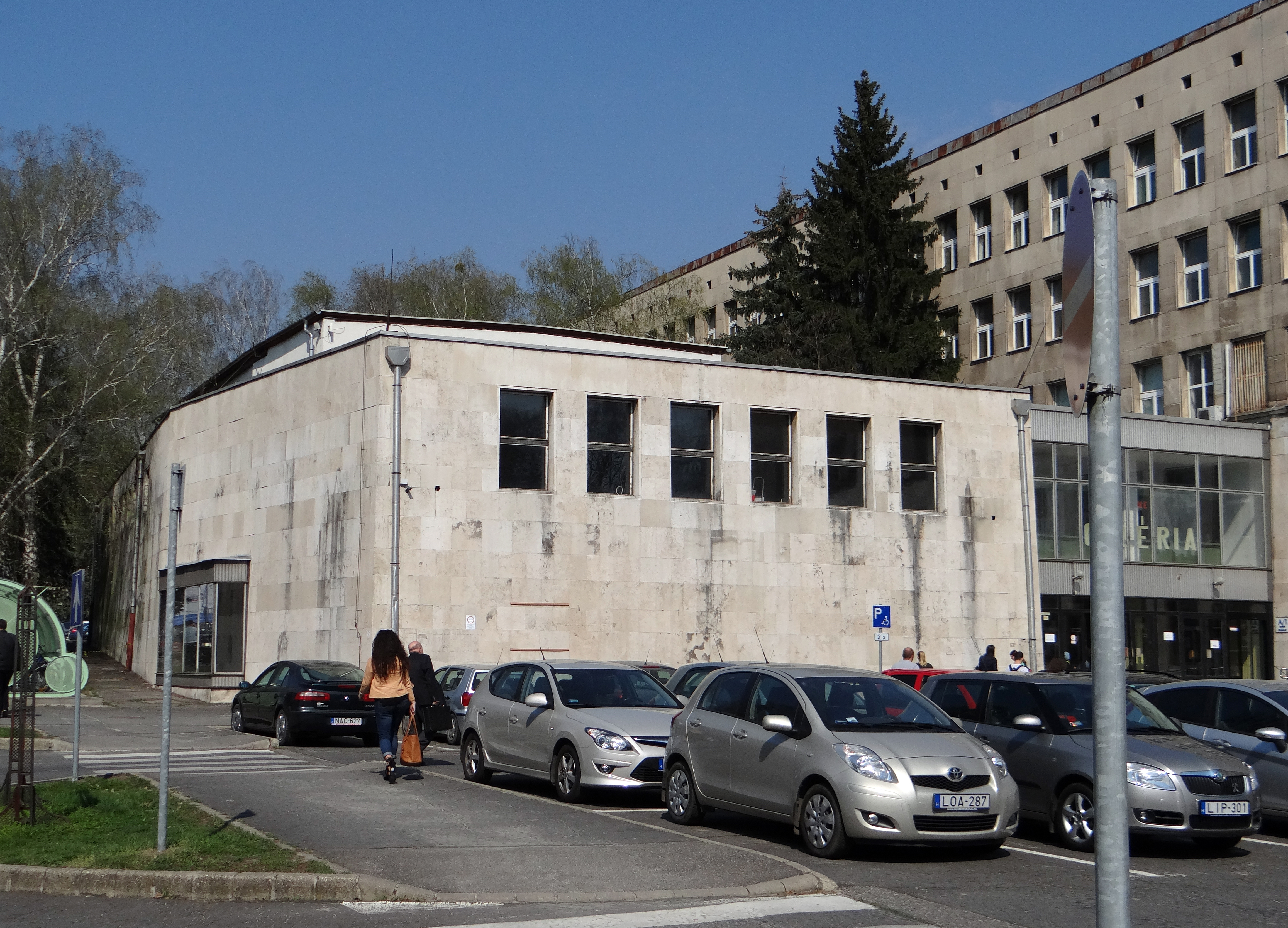 Old Hall, A1-A2 building, University of Miskolc, Hungary